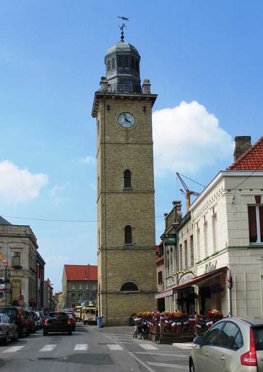 Belfry of Gravelines